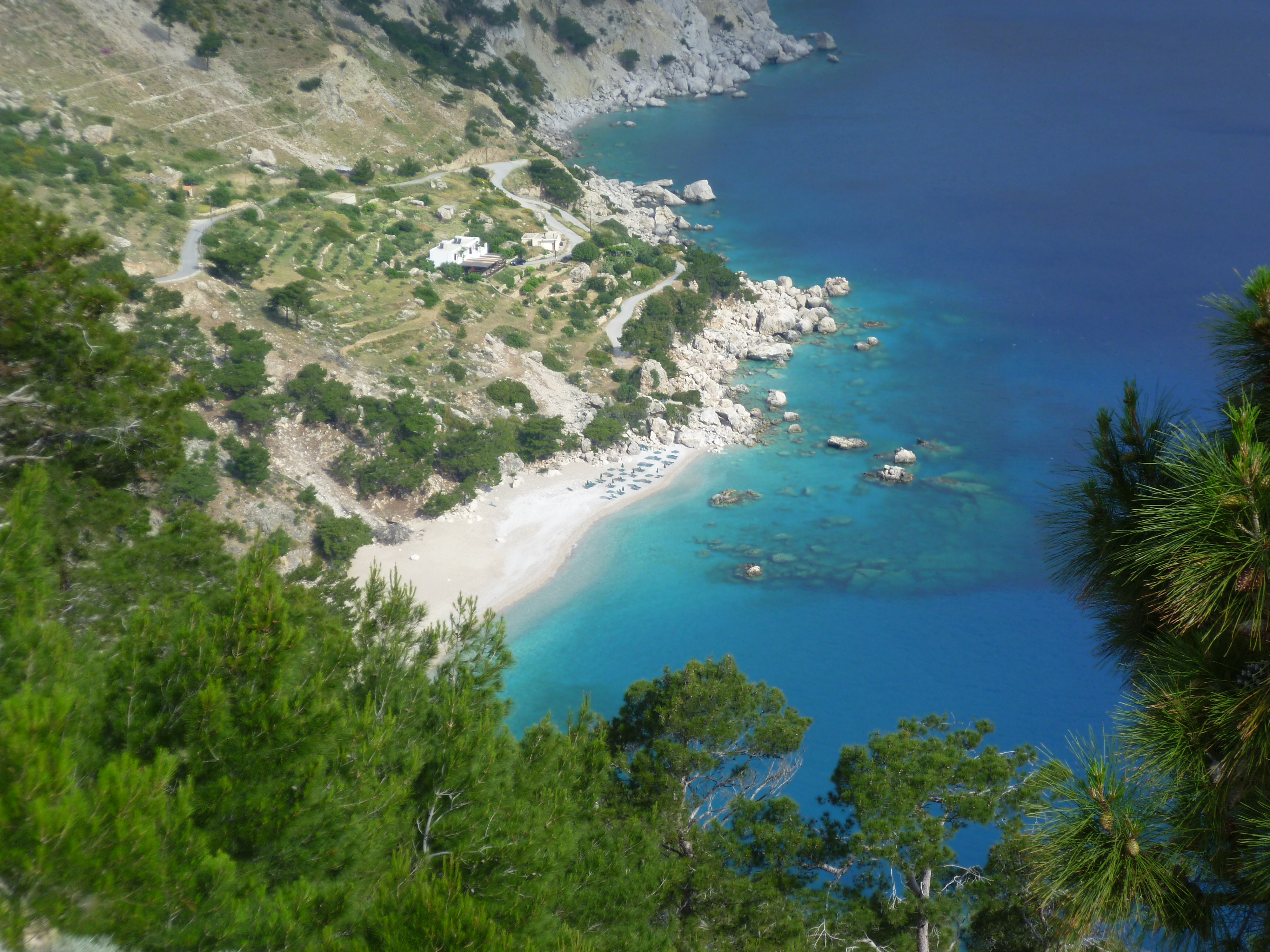 Apella beach